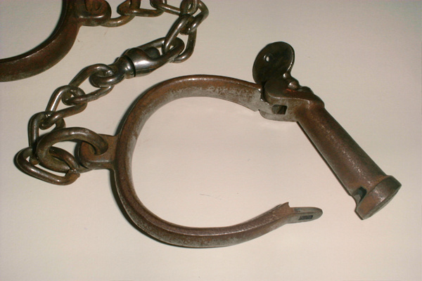 Shackle Hiatt Darby